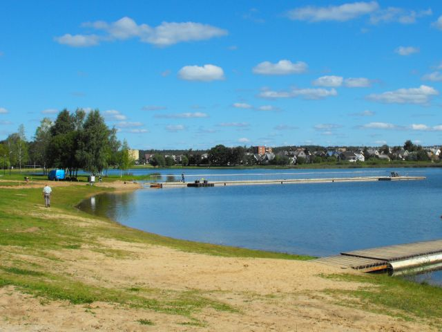 Dauniškis park in Utena city